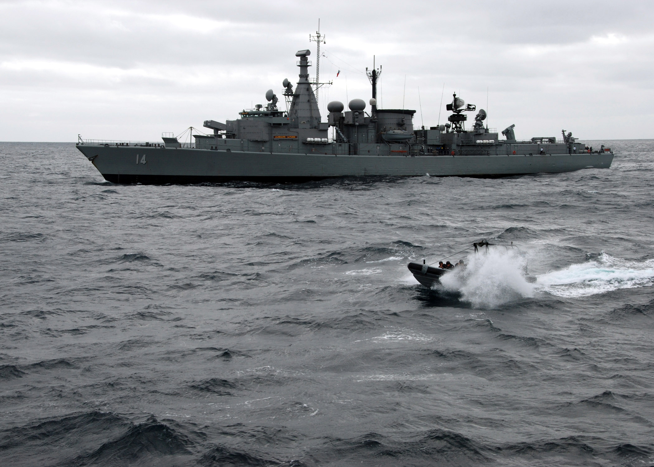 PACIFIC OCEAN (June 25, 2007) - Chilean frigate CS Almirante Latorre (FFG 14) sails forward while members of her visit, board, search and seizure (VBSS) team make an approach to dock landing ship USS Pearl Harbor (LSD 52) and prepare to engage in VBSS exercises during UNITAS 48-07 Pacific phase of Partnership of the Americas (POA) 2007. POA is focusing on enhancing relationships with partner nations through a variety of exercises and events at sea and on shore throughout Latin America and the Caribbean. U.S. Navy photo by Mass Communication Specialist 3rd Class Damien Horvath (RELEASED)